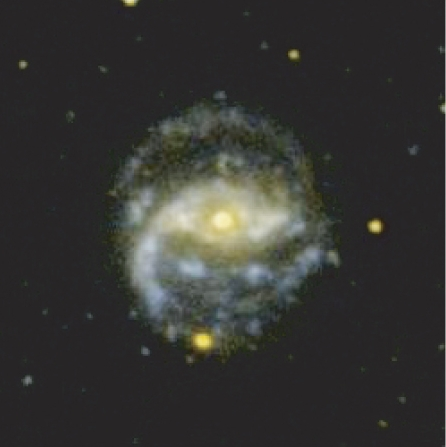 NGC 7552